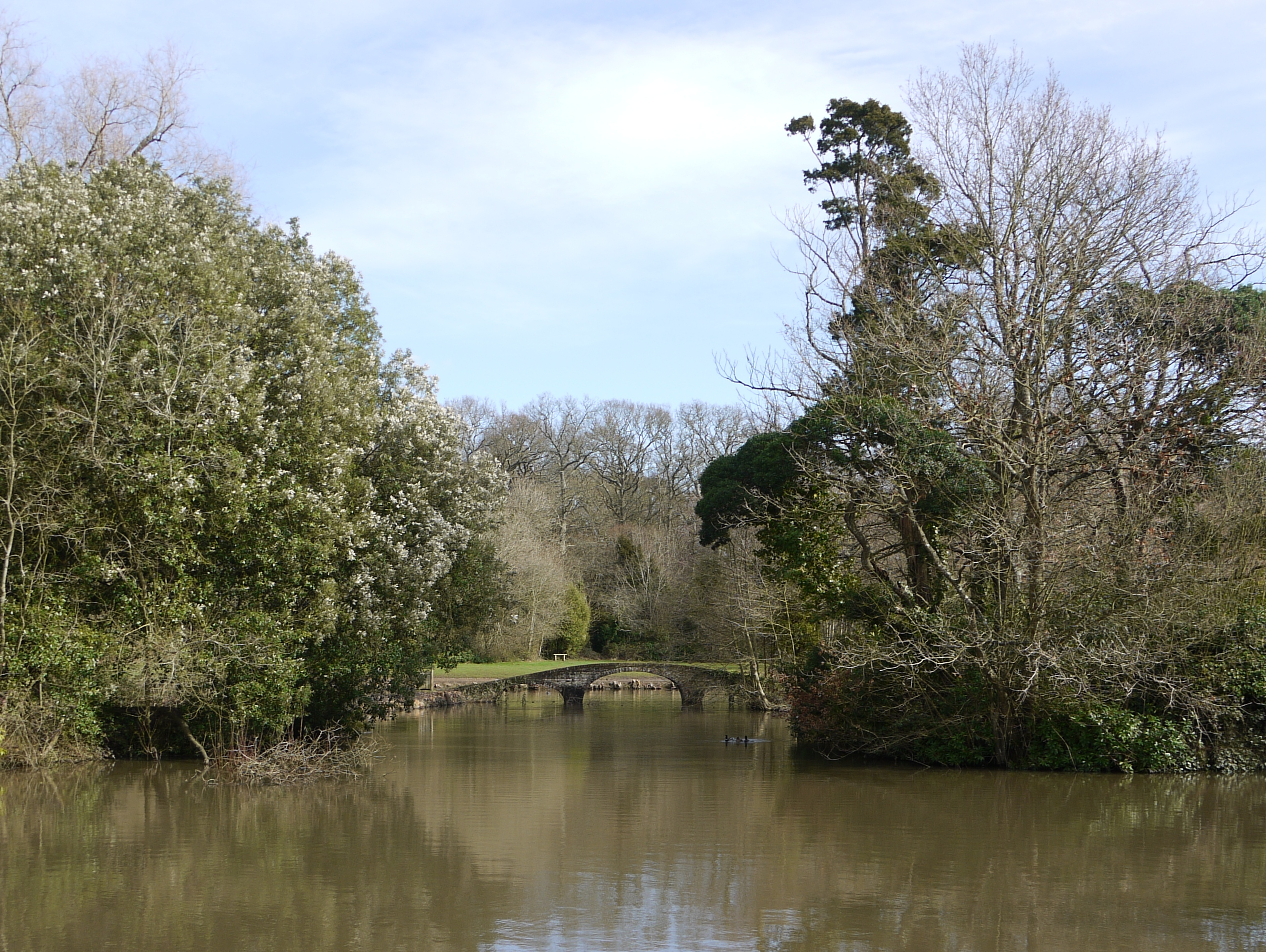 Photo of what is left of the Chinese bridge at Staunton Country Park seen between two of the islands on Leigh water